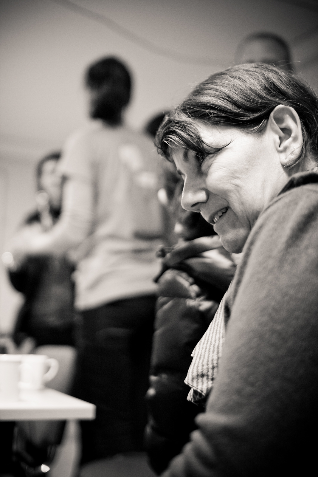 Olivia Heussler and her photography workgroup during ISWI